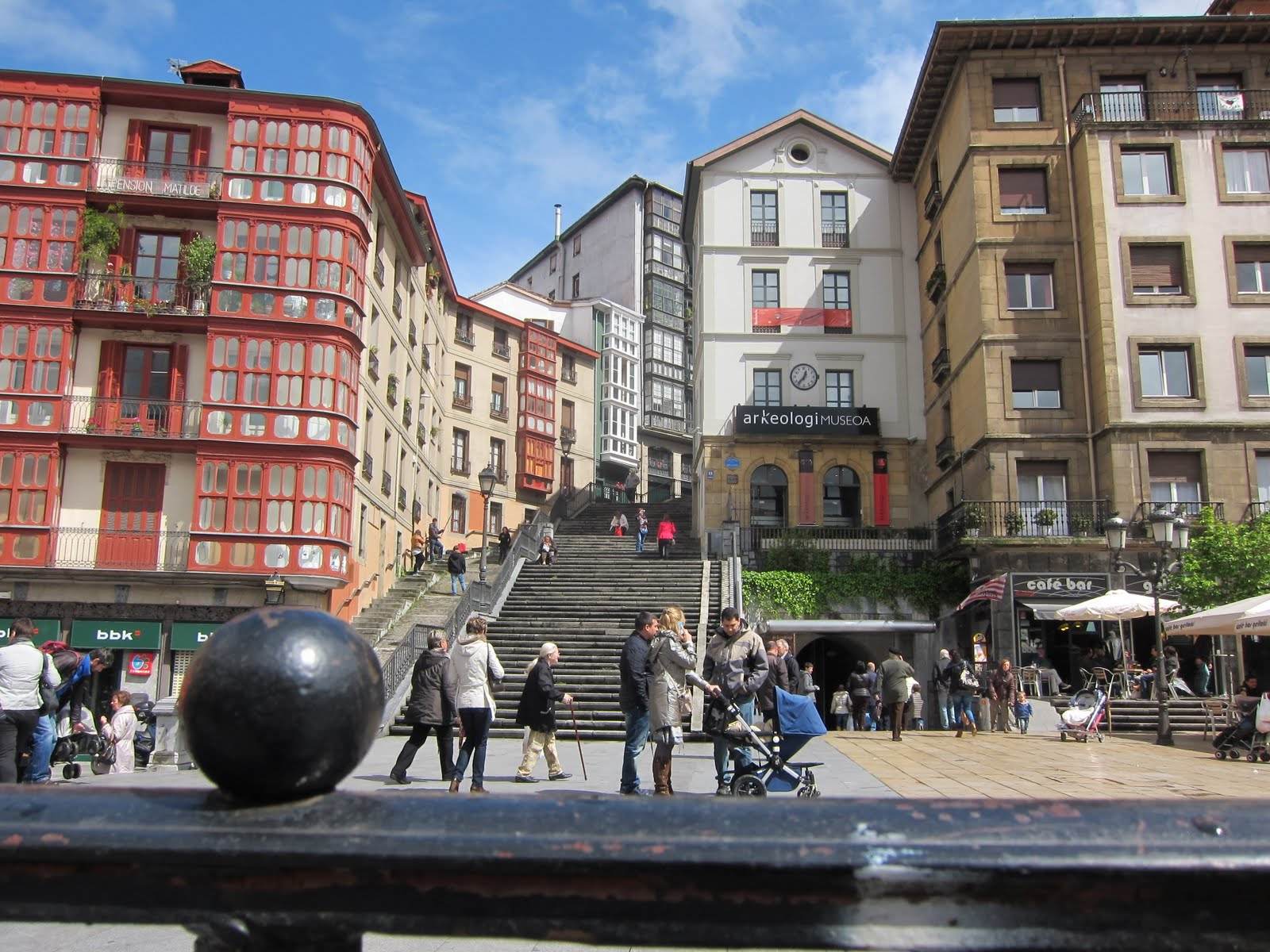 Multi-level Medieval Barrio of Bilbao